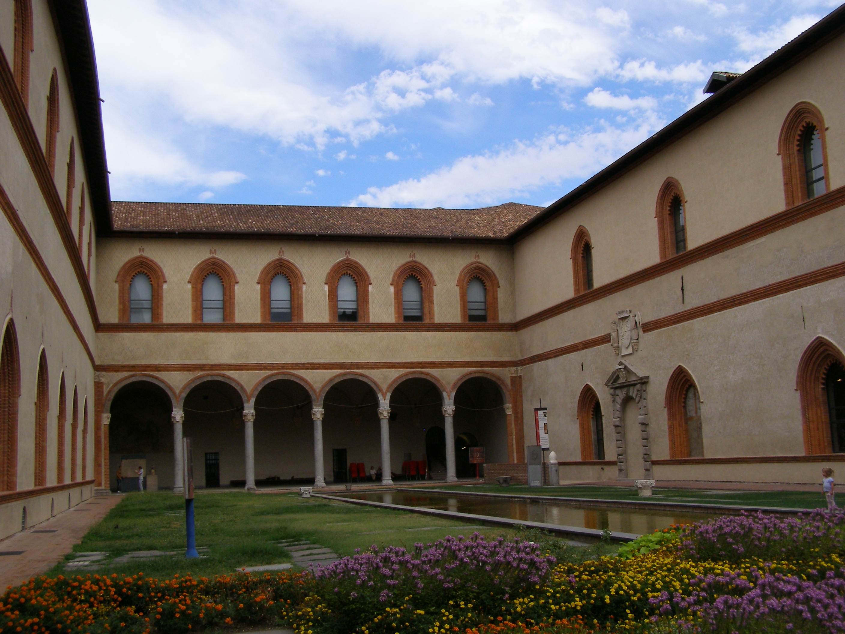 Milan - Sforza's Castle - Dukes' Courtyard